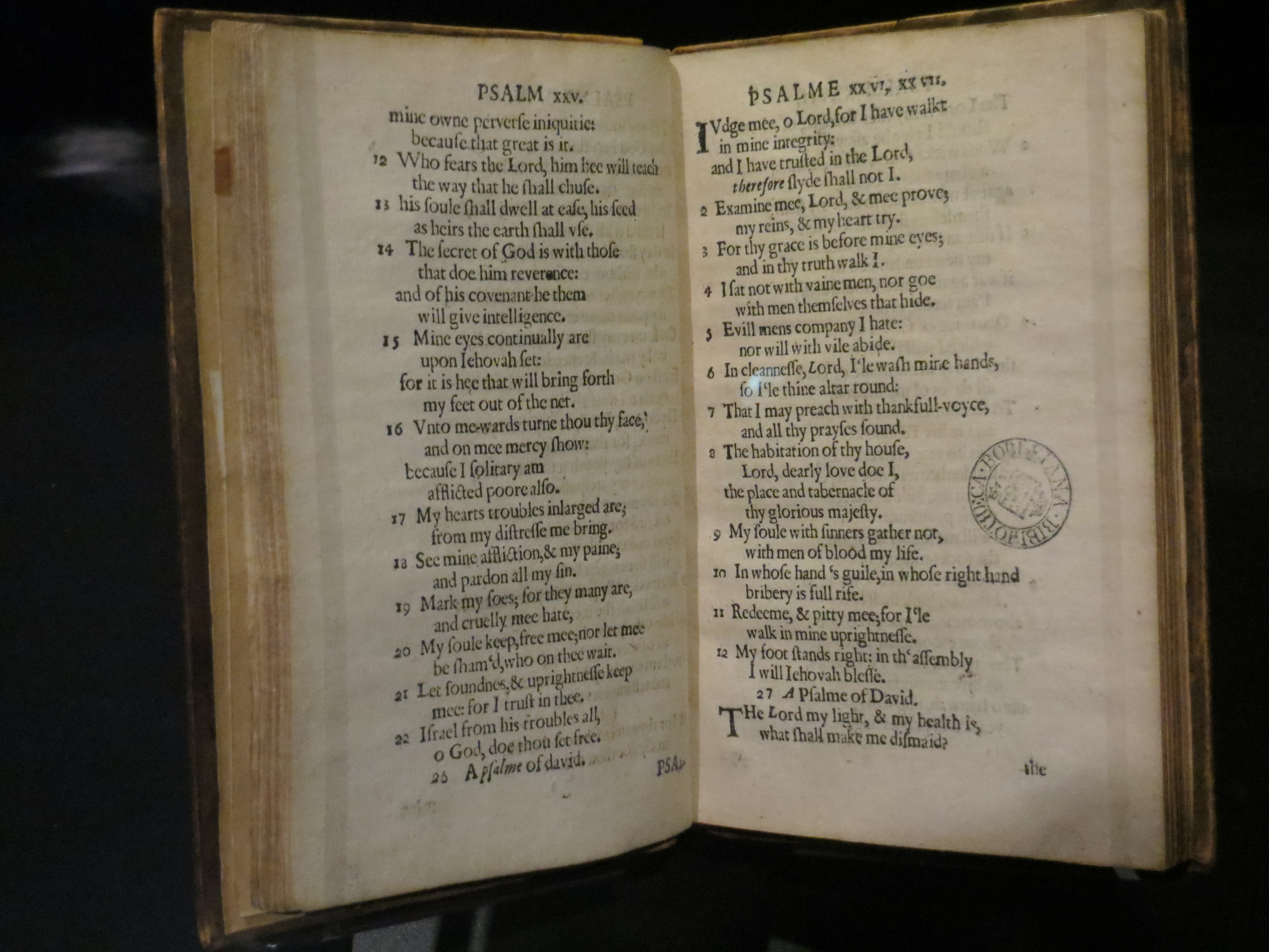 Bay Psalm Book in Bodleian Library, Oxford